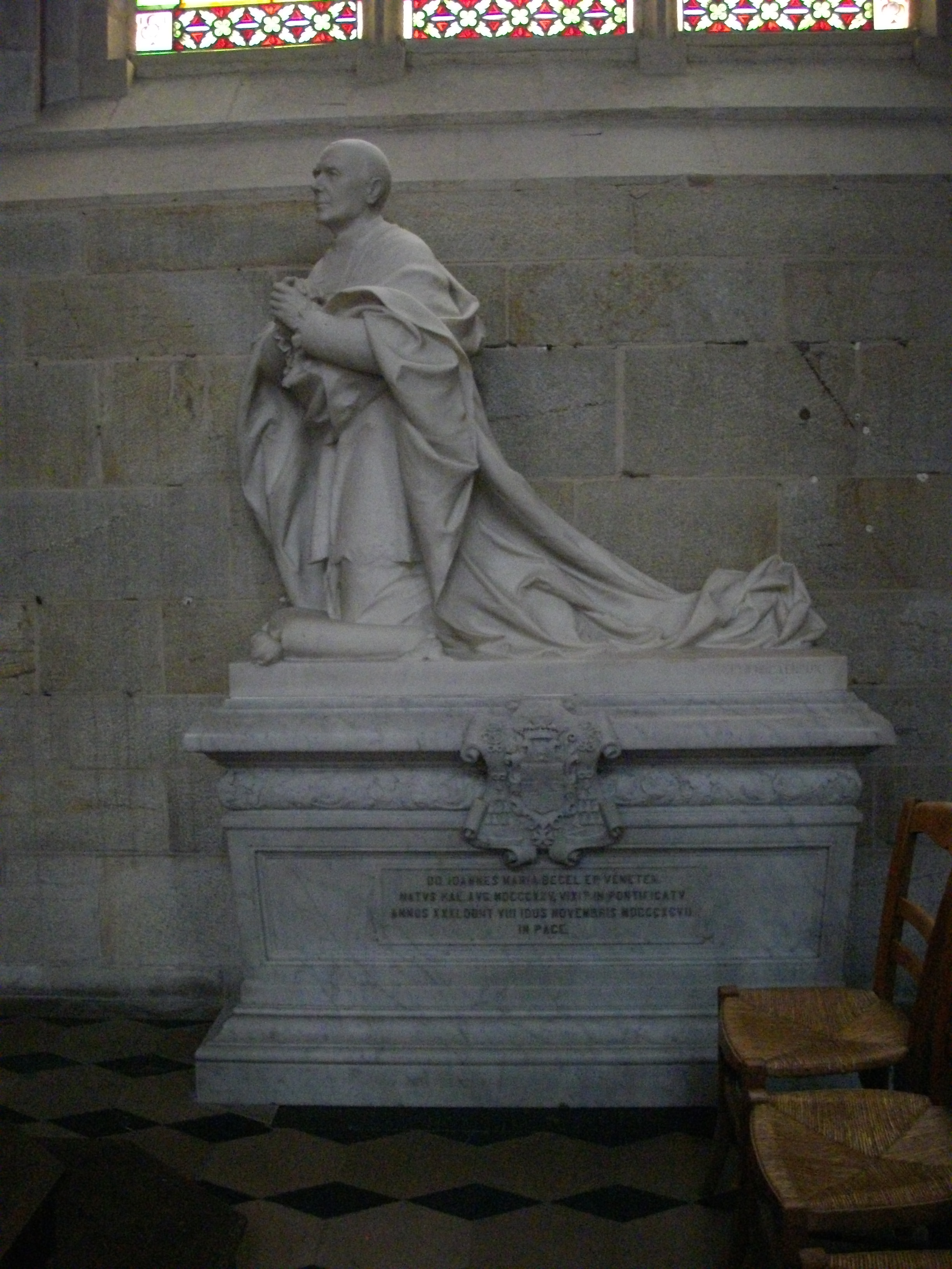 Tomb of Jean-Marie Bécel in Saint Peter cathedral of Vannes (Morbihan, France)